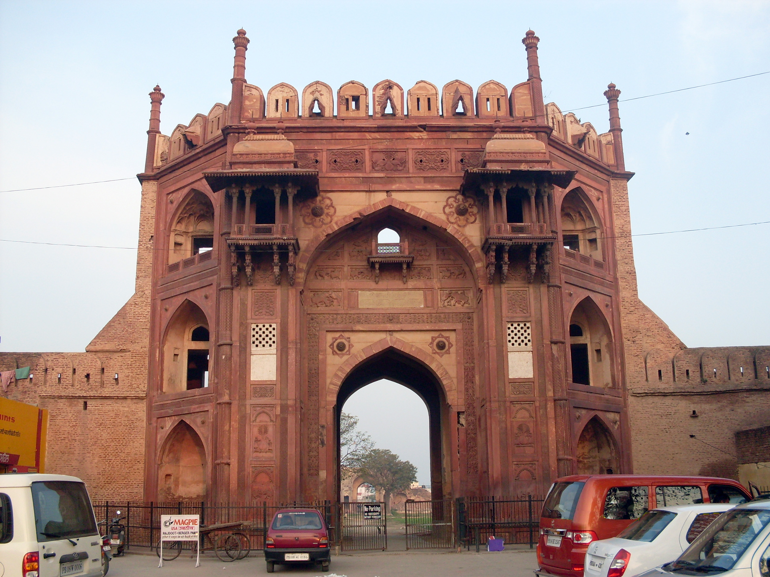 The small town of Nurmahal is famous for Serai Nurmahal which was constructed for the travelers visiting the town. The filigree work and tiles decorated in beautiful patterns are the main attractions of the sarai. Nur Jahan ordered the construction of the Sarai and got it built by Governor of the Doab, Nawab Zakariya Khan between 1619 and 1621 A.D. The four delicate minarets of the sarai are worth mentioning.